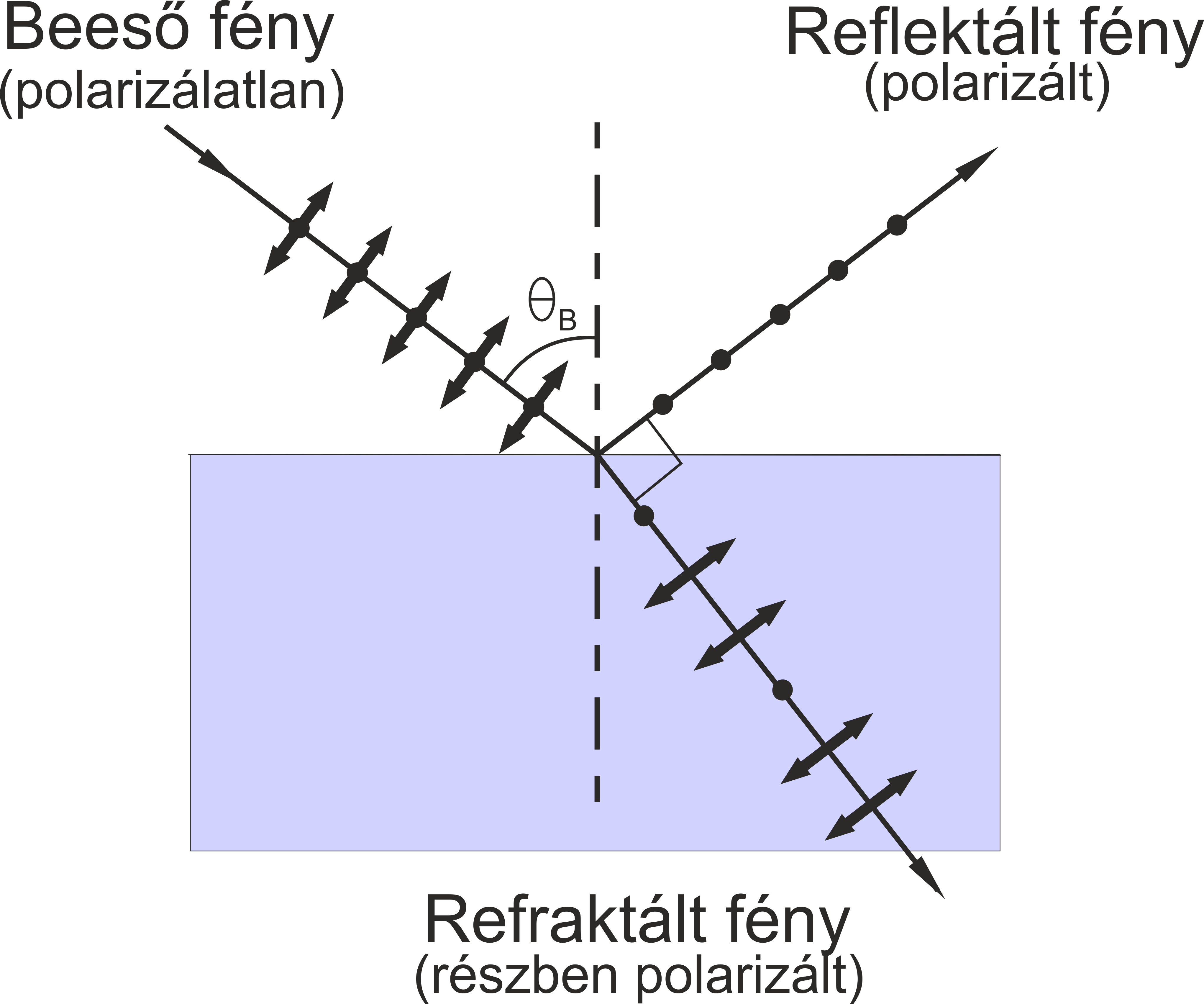 Brewster's angle